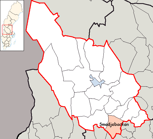 Smedjebacken Municipality in Dalarna County Designd by me, based on Image:Dalarna County.png